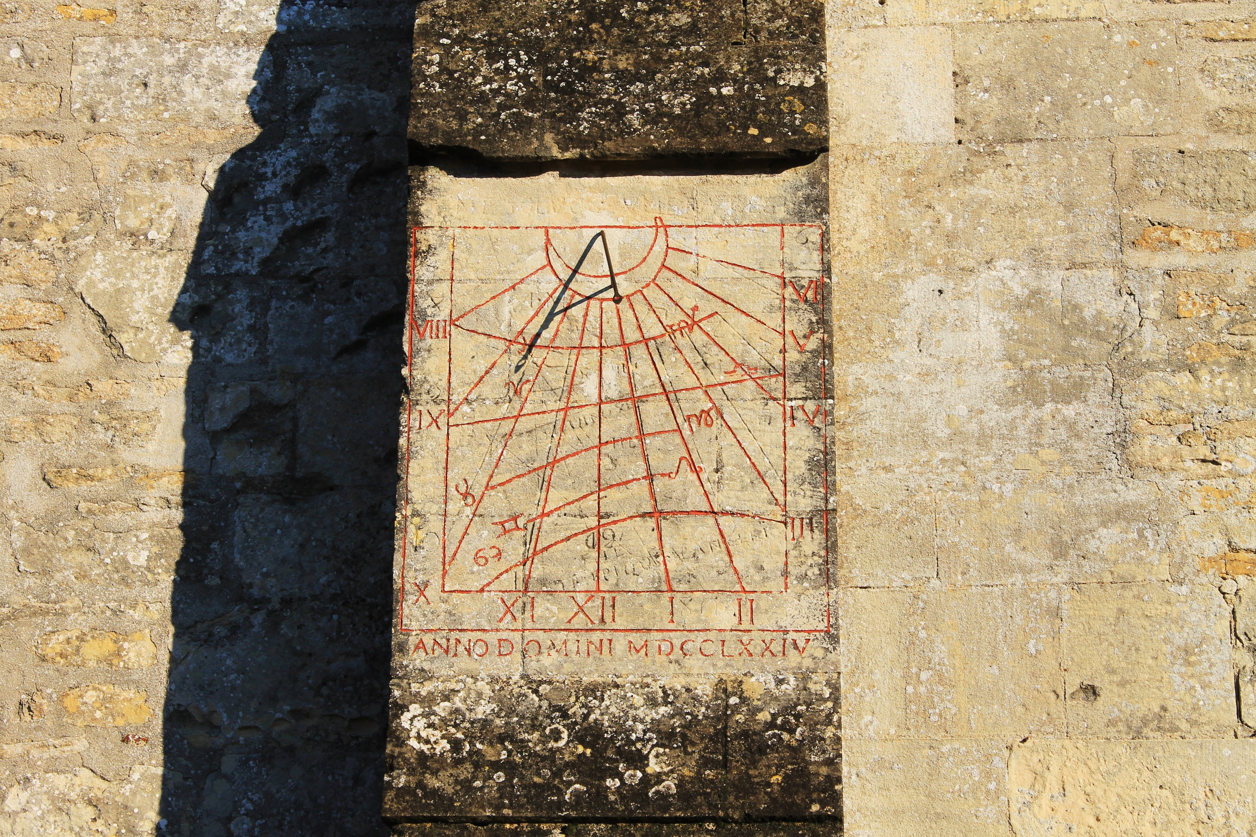 Sundial on the church Saint-Pierre in Villons-les-Buissons (Calvados)